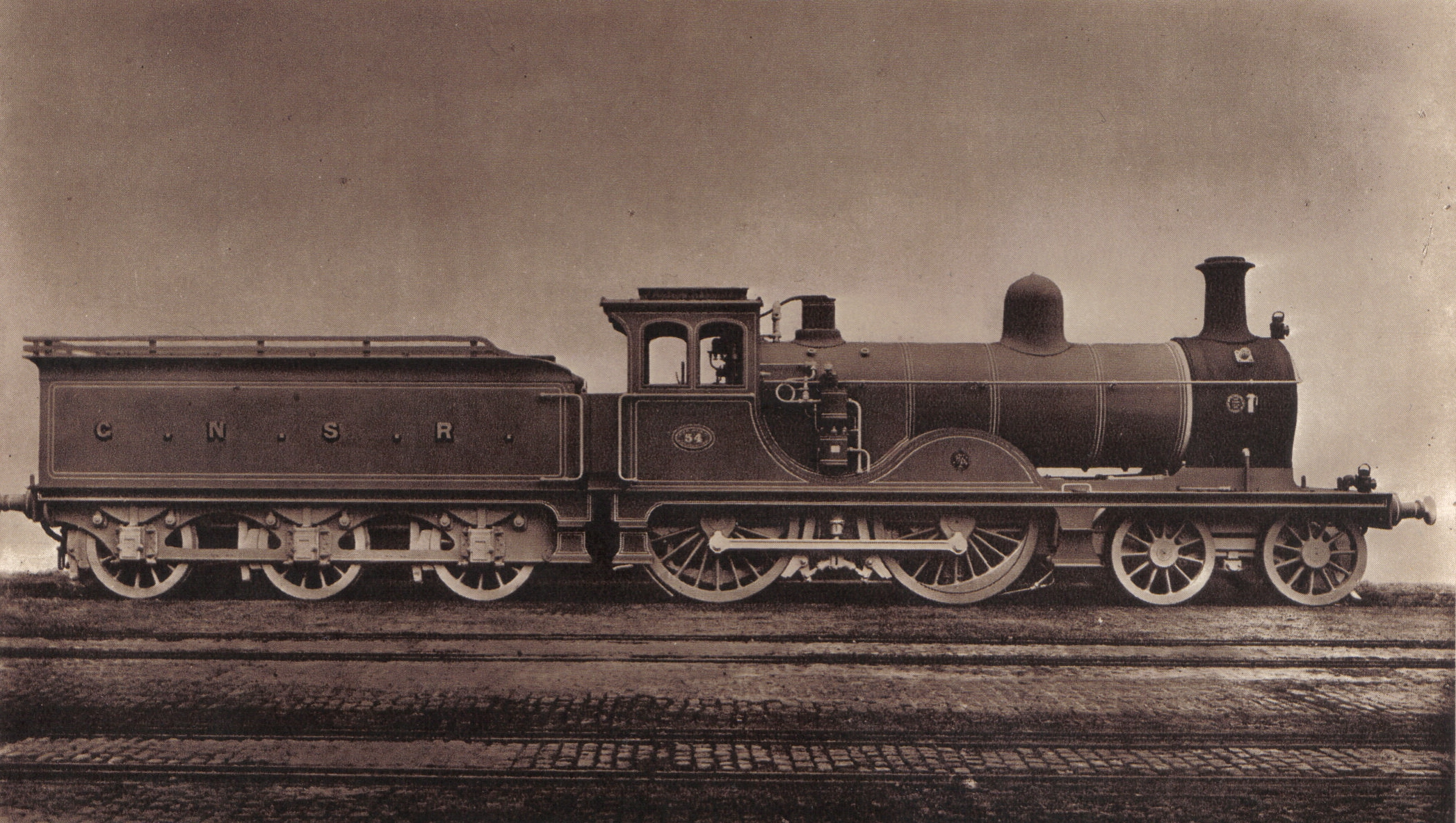 GN of SR Locomotive No. 54 "Southesk", a Class "F", as originally built. The Great North of Scotland Railway had twenty-six of these locomotives built by the North British Locomotive Company between 1920–21. No. 54 became LNER D41 No. 2280 and was withdrawn in 1947.